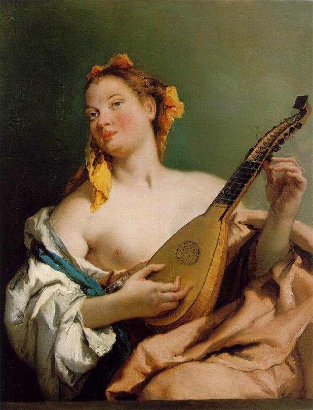 Woman with a Mandolinlabel QS:Len,"Woman with a Mandolin" label QS:Lpl,"Dziewczyna z mandoliną"